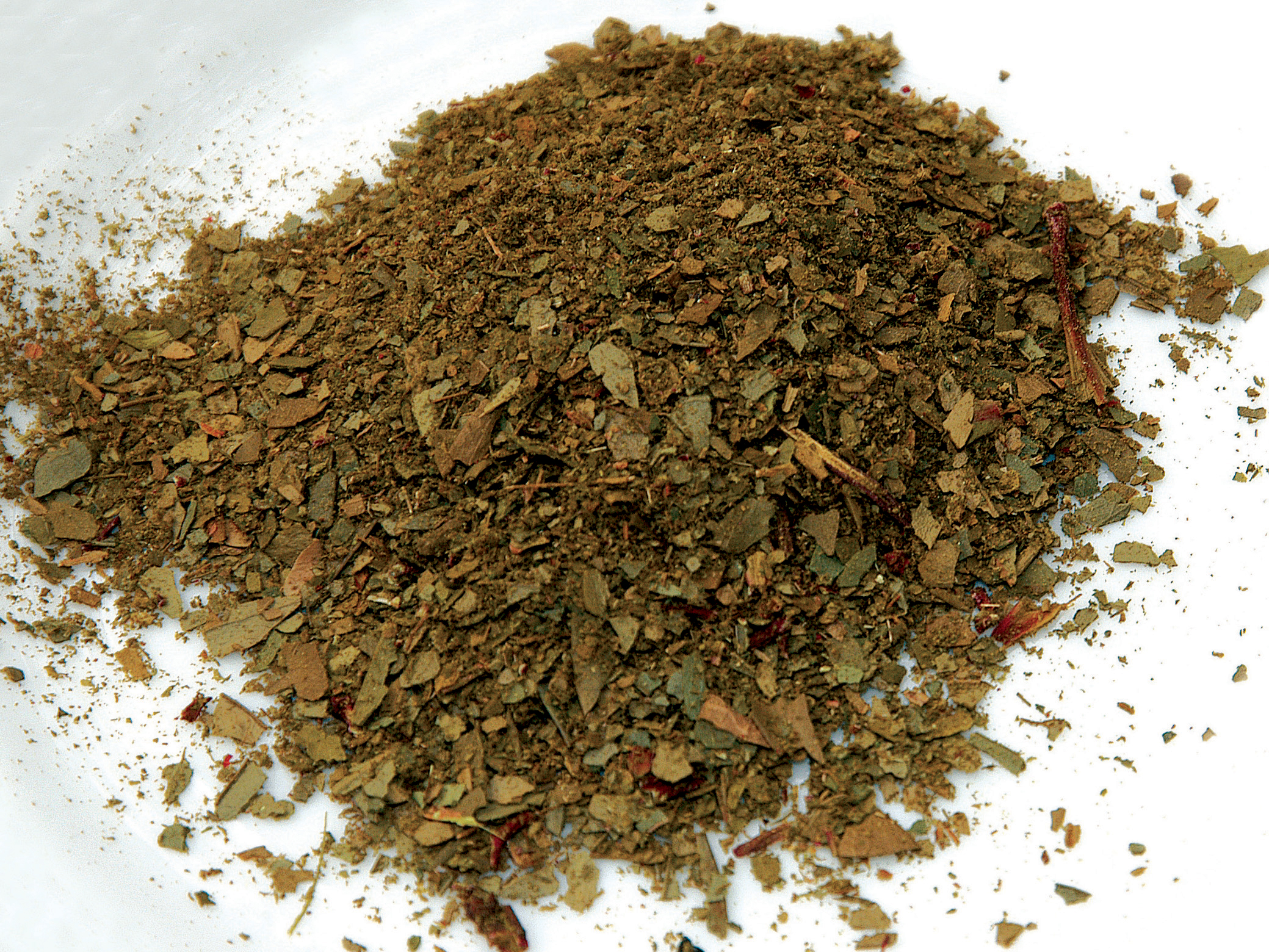 Native to cool, moist forest areas of south-eastern Australia, the mountain pepper is a shrub or small tree to 5 metres. The plant's dark green, glossy leaves and pea-sized ppurple-black berries have a hot, peppery flavour and unique aroma. The fruits and leaves can be used to flavour sauces, chutneys, meats, cheeses, pate, breads, pastas etc. CSIRO is working with Aboriginal communities and Australian industry to help develop the bush foods industry. CSIRO is seeking ways to lower production costs and increase product quality in order to meet the growing demand for a variety of food ingredients from Australian native plants, seeds and fruits.